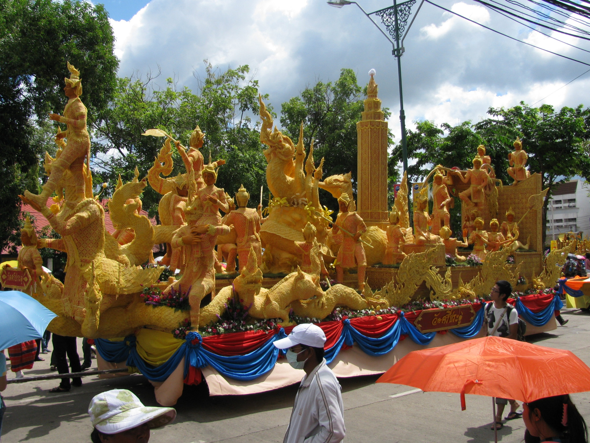 Candle Festival in Ubon Ratchathani, Thailand Self-made in July 2009 by --Plenz (talk) 10:05, 17 August 2009 (UTC)